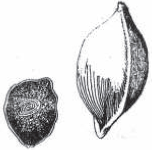 ಇಂಗುದಿ